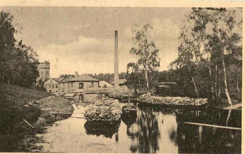 An old postcard of Tervakoski paper mill in Janakka, Finland.